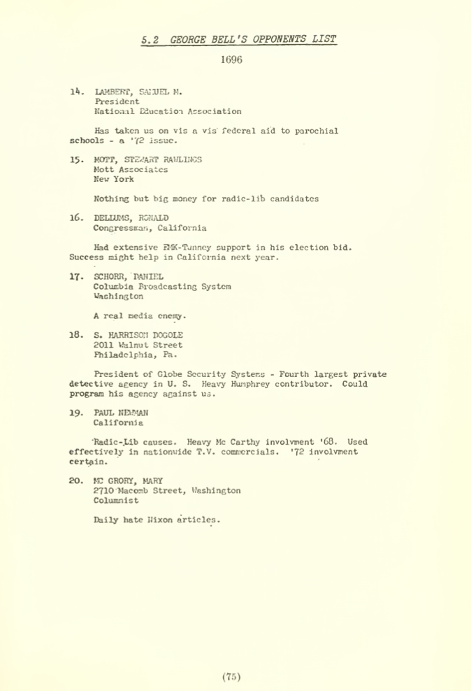 Page 3 of Nixon's Enemies List compiled by George T. Bell. Text